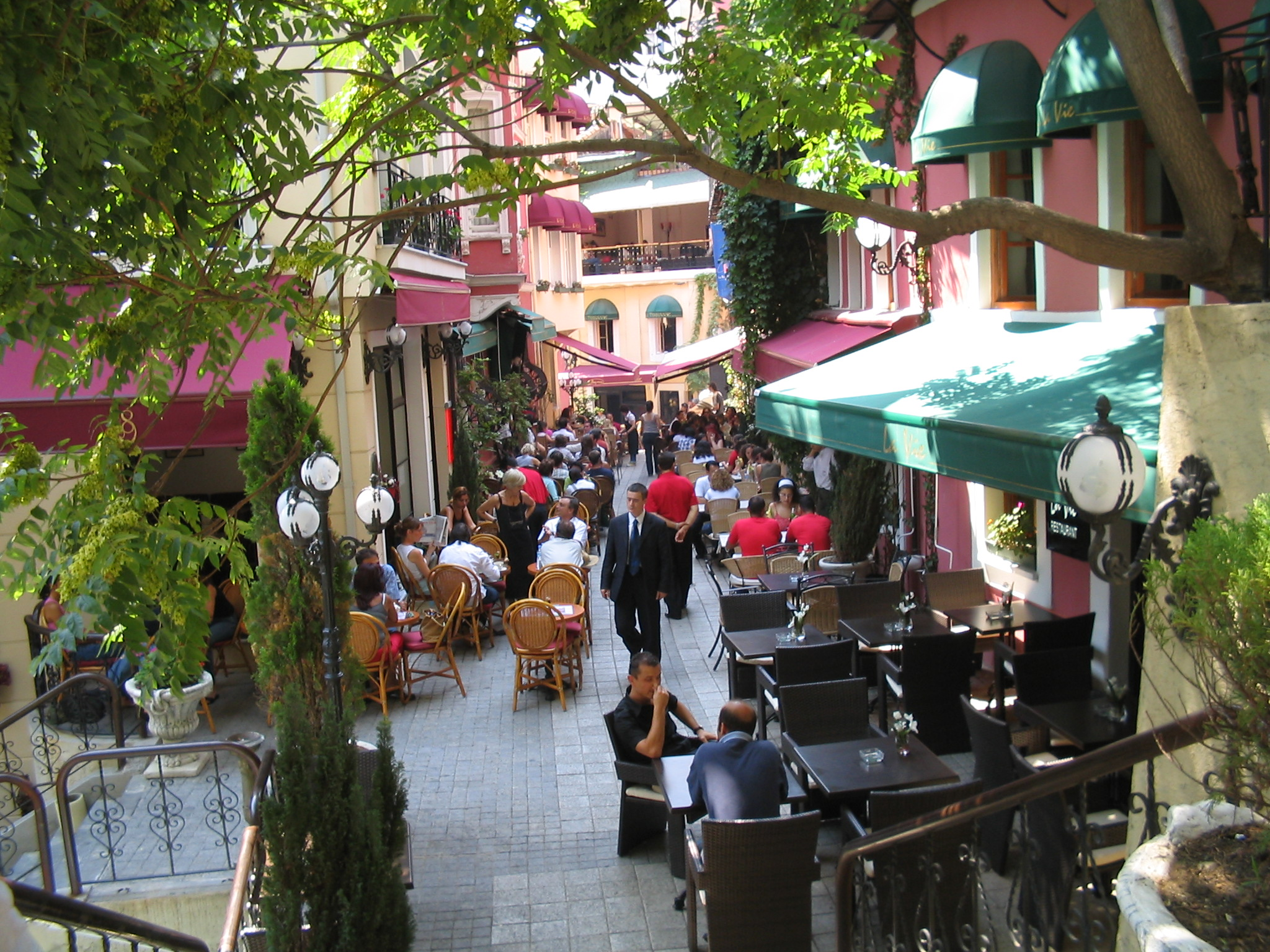 French Street, Fransiz Sokagi, Cezayir Sokagi, in Beyoglu Istanbul